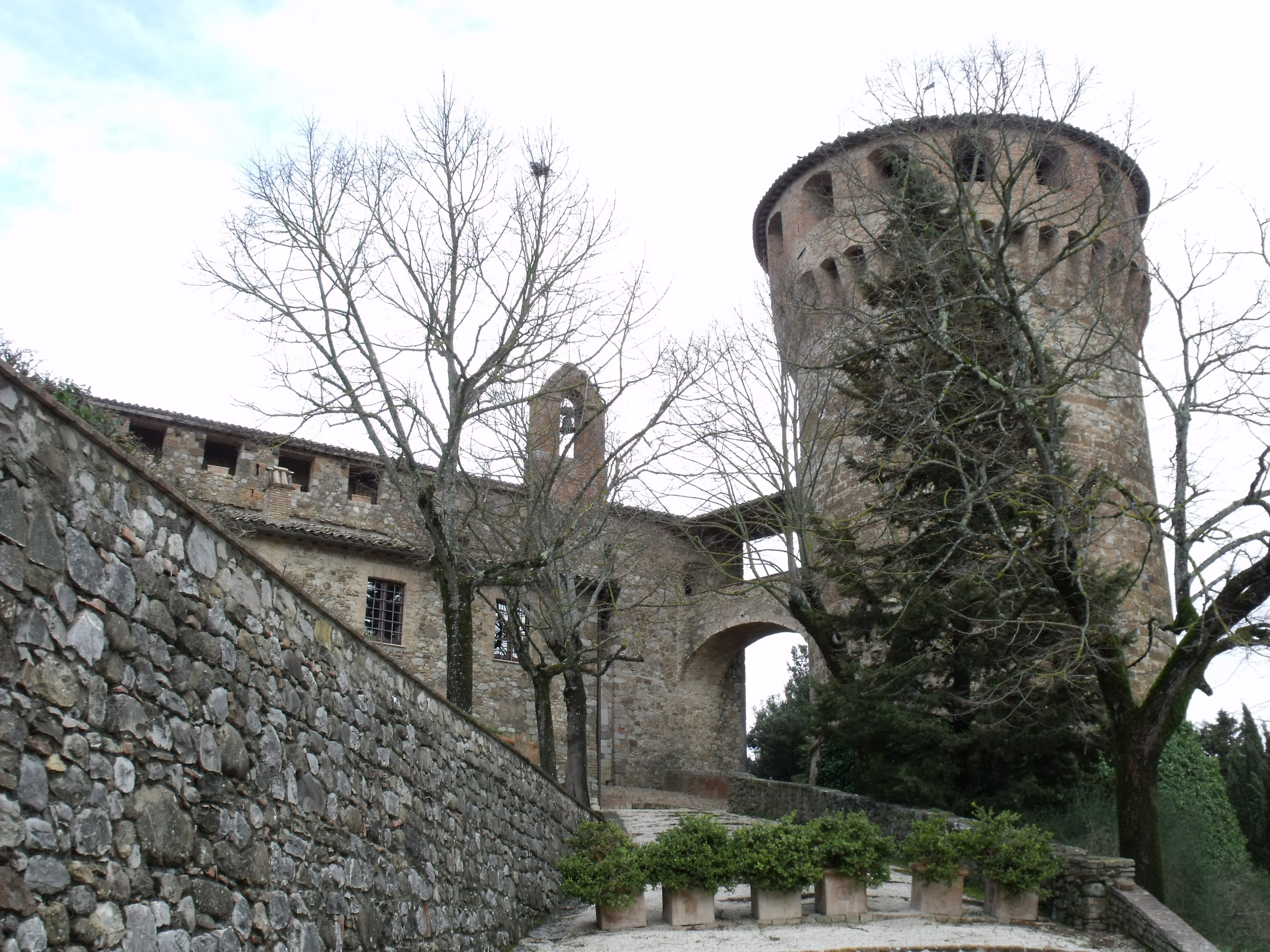 Castle Castello della Sala in Sala (Ficulle), Province of Terni, Umbria, Italy